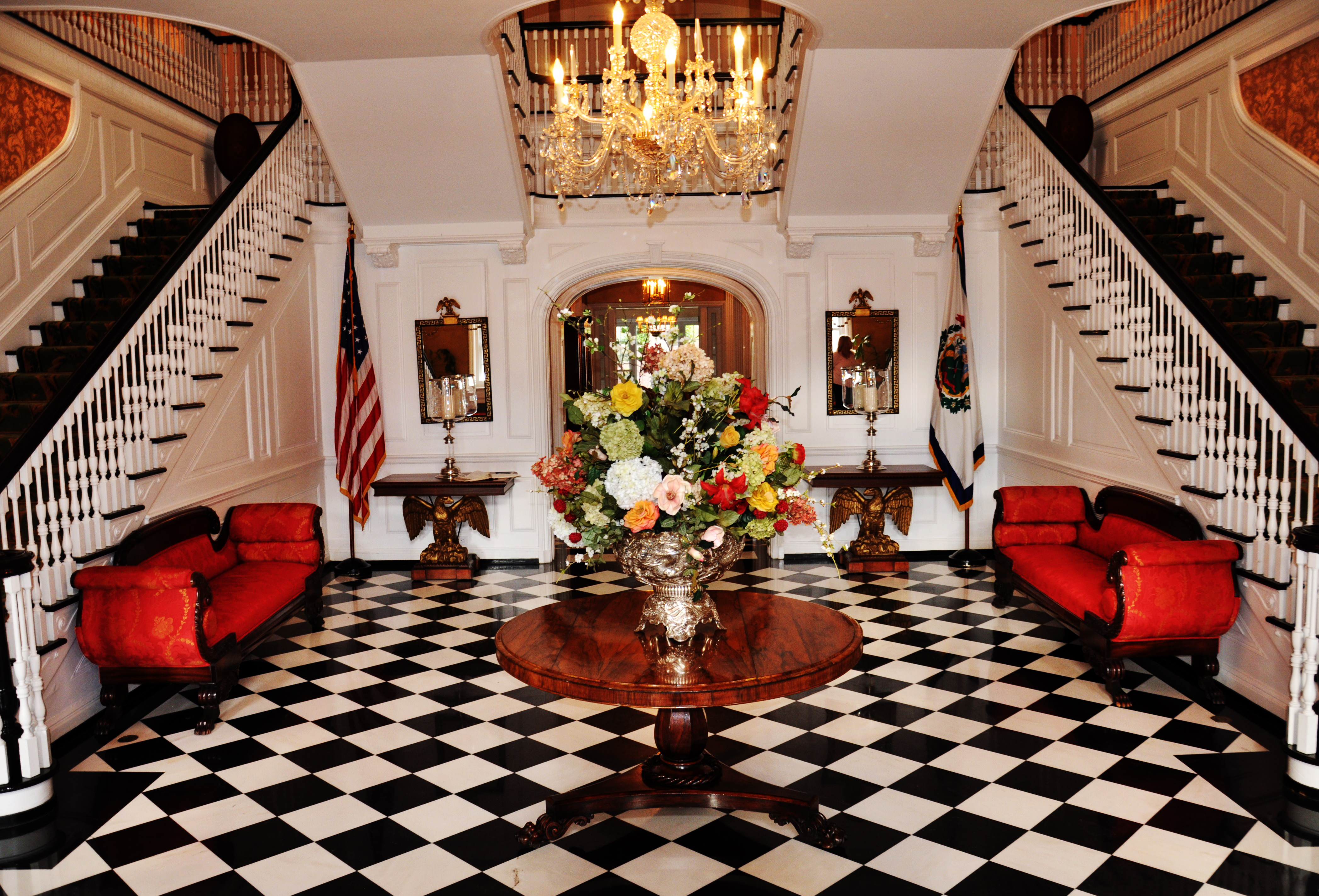 Foyer